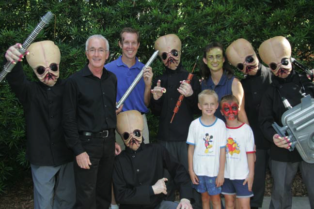 Are the Modal Nodes looking for new members to join their band? (Photo by Ron Riccio) Photo by Ron Riccio. For video coverage of the fourth and final Disney Weekend of 2007, click here.